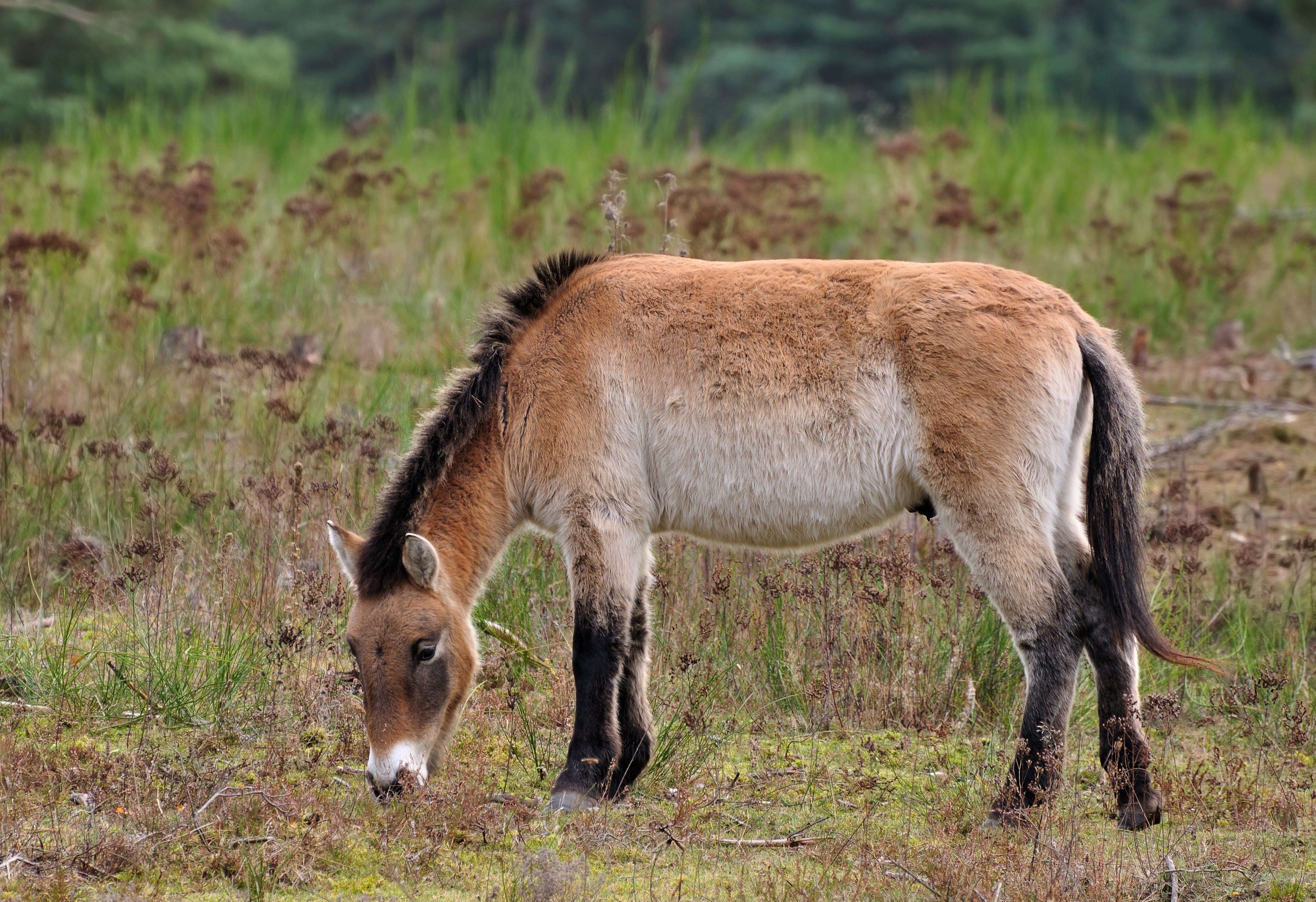 A Przewalski's stallion in the Nature Reserve Tennenloher Forst near Nuremberg, Bavaria, Germany Camera: Nikon D90 Lens: Nikkor AF-S VR 70-300mm 4.5-5.6G IF-ED